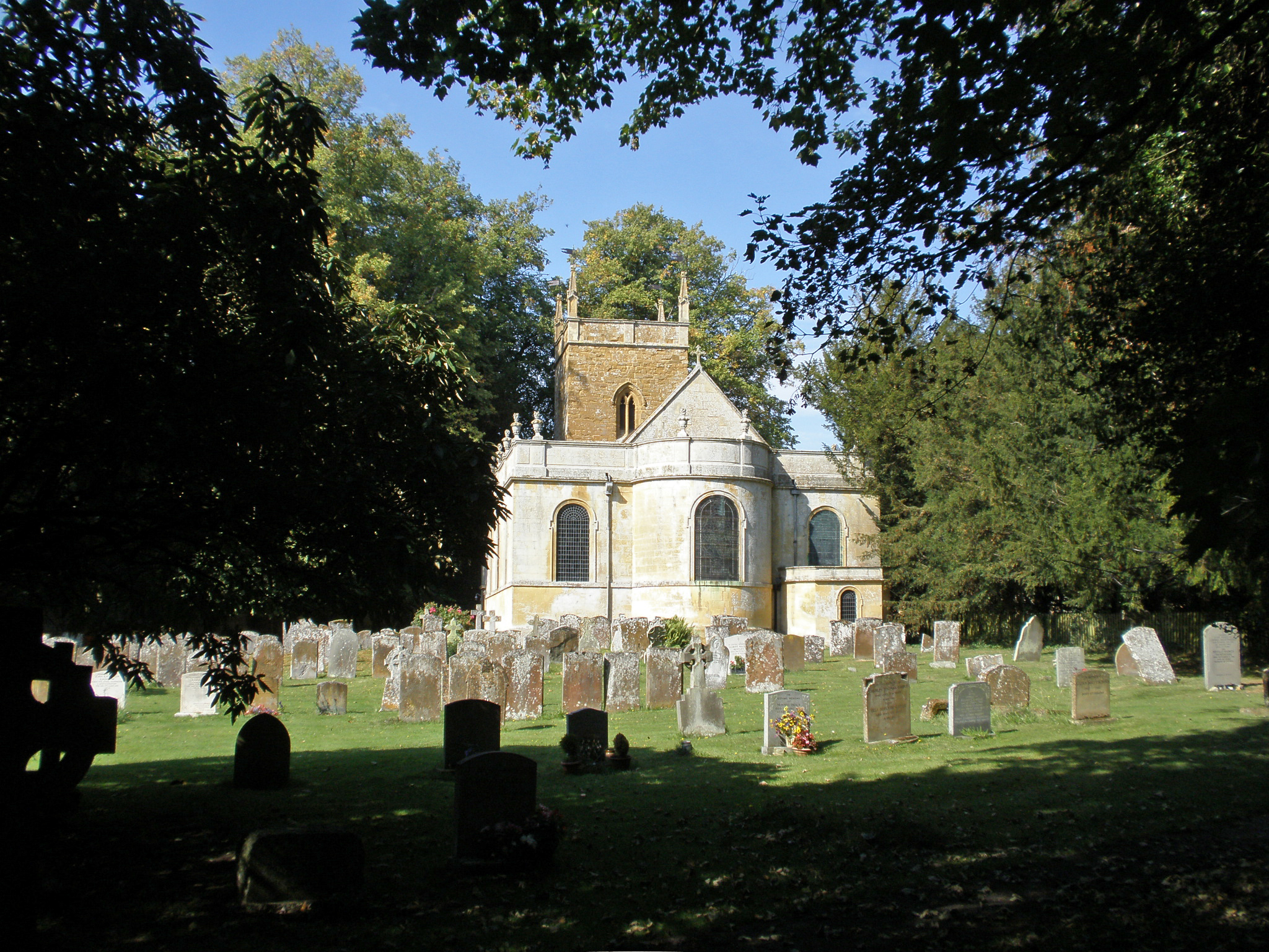 All Saints' parish church, Honington, Warwickshire, seen from the east